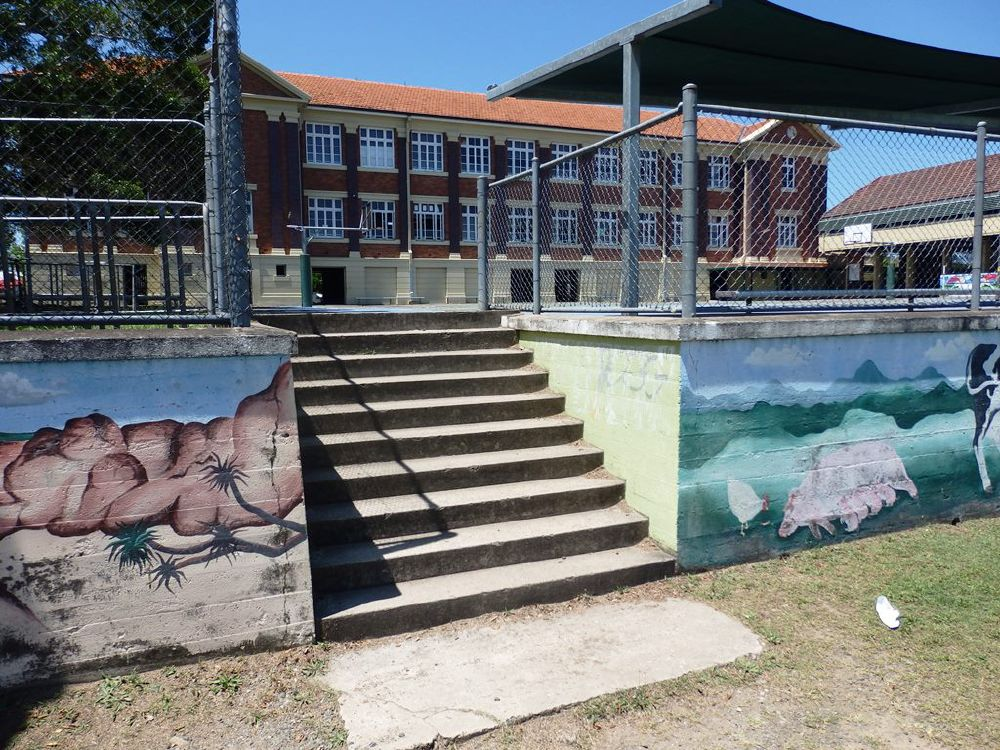 Retaining wall and steps, located SW of Block A, looking NE (EHP, 2015)